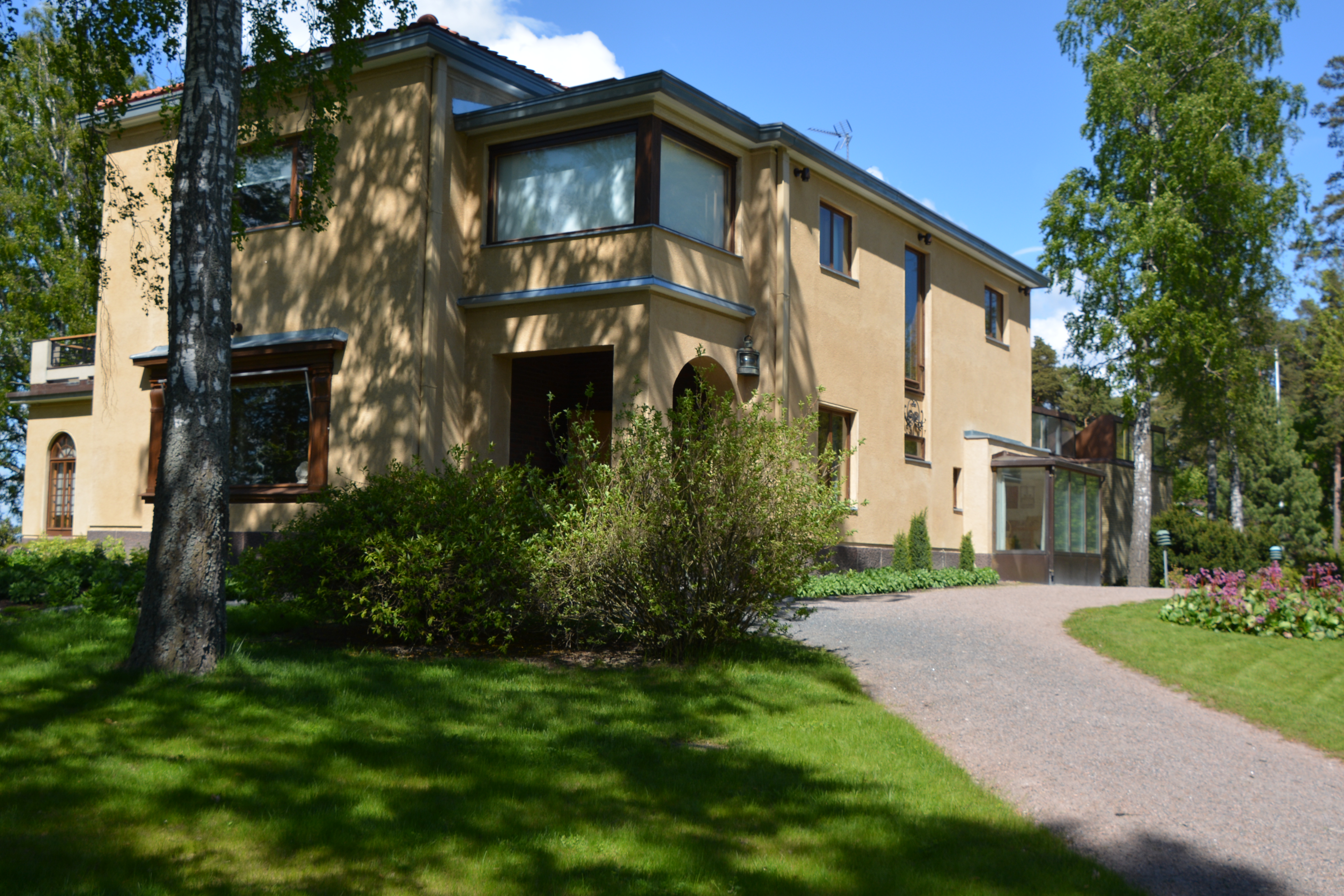 Villa Gyllenberg